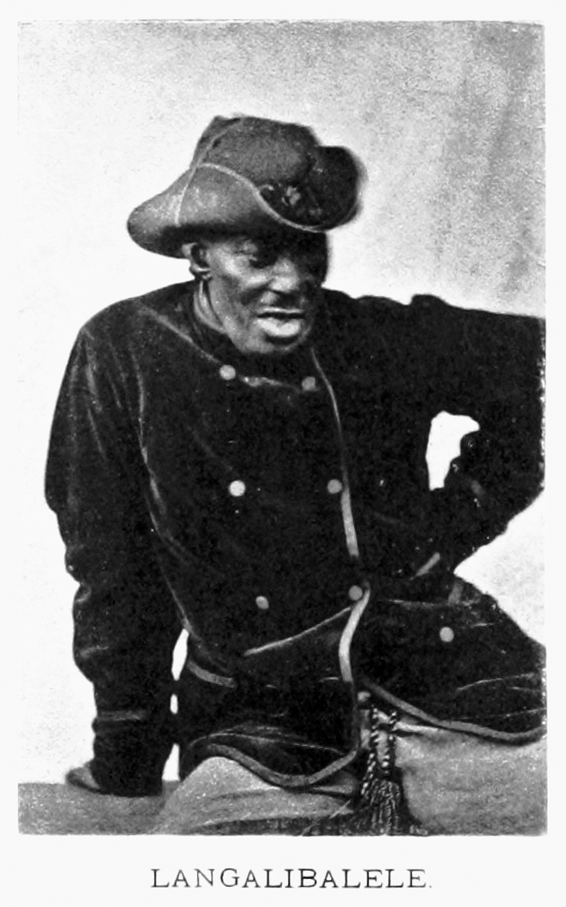 Langalibalele (c1814 - 1889) was chief of the amaHlubi, a tribe that lived in what is now KwaZulu-Natal (South Africa).